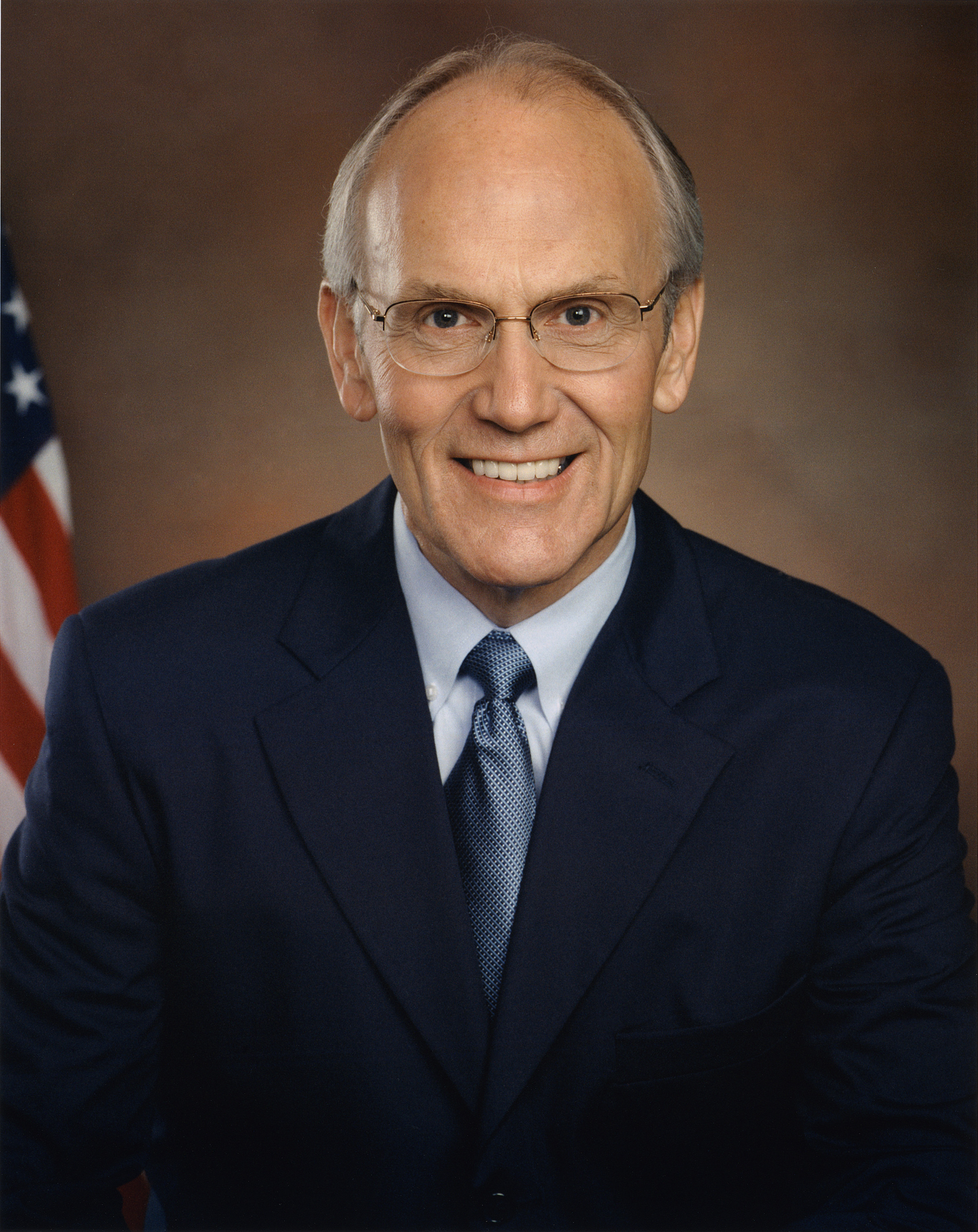 Larry Craig, member of the United States Senate from Idaho.